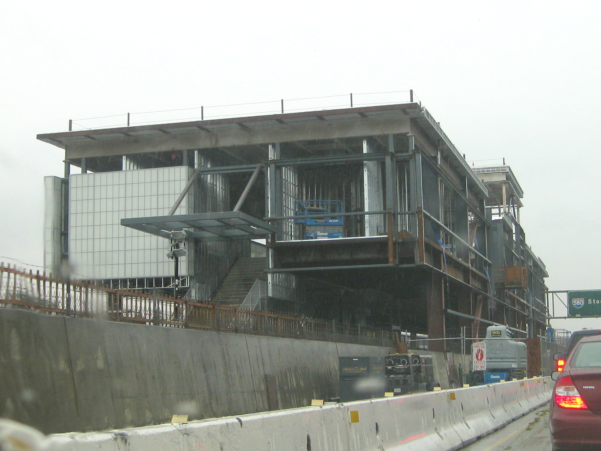 West Dublin/Pleasanton BART station, under construction, as seen from eastbound Interstate 580